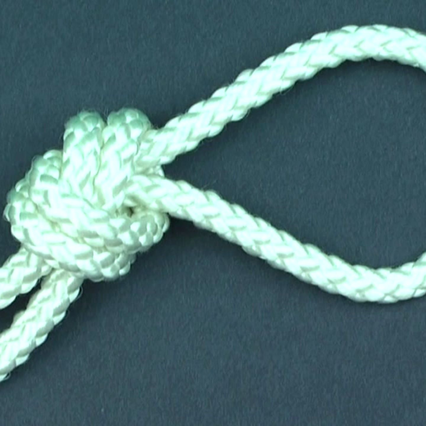 An overhand loop